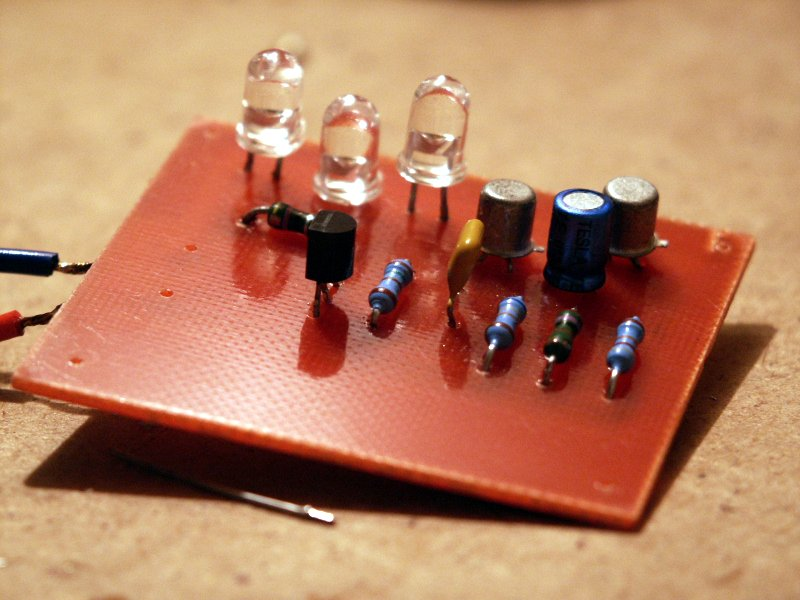 PCB, Component side